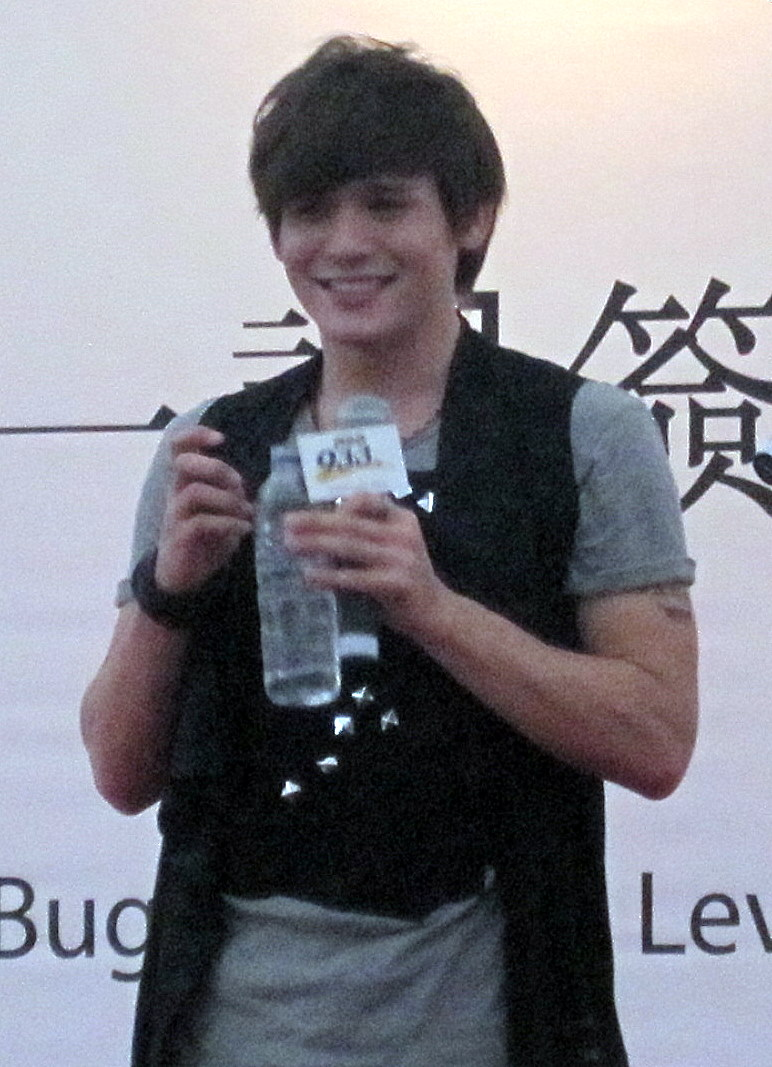 Anthony Neely （倪安东） in Singapore during his debut album promotional autograph session on 29th Jan 2011.